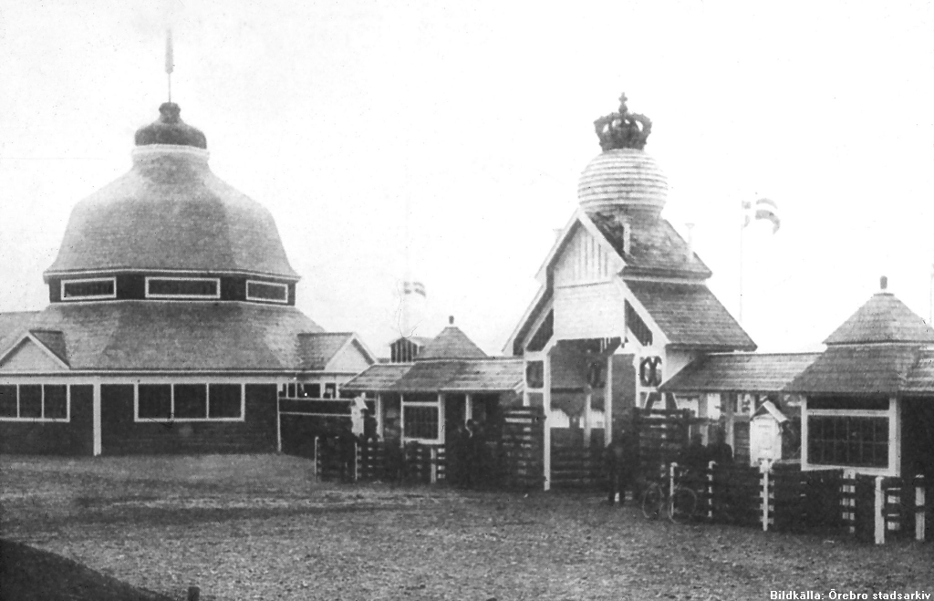 The farmer's exhibition in Örebro 1911